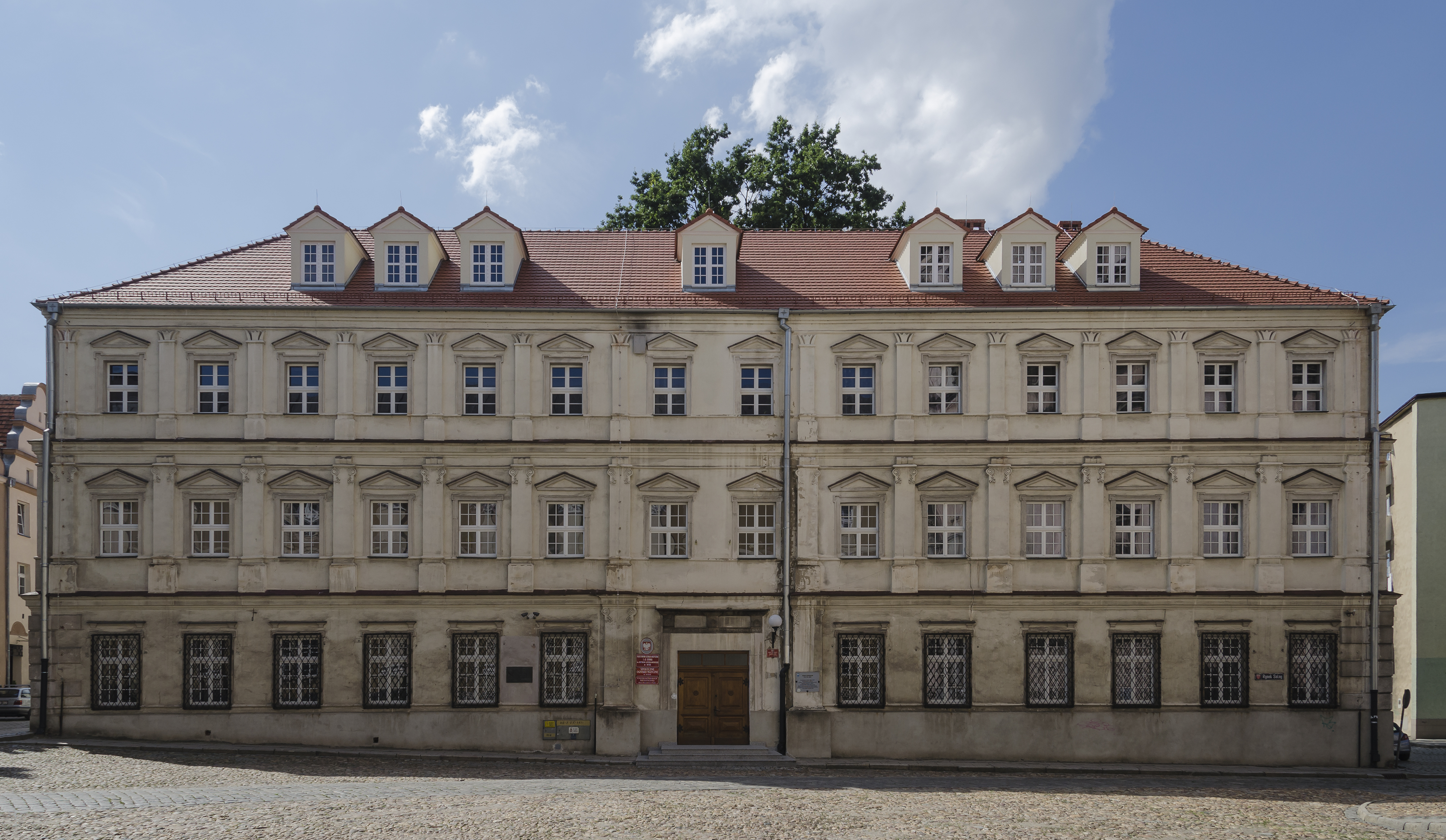 State School of Music in Nysa